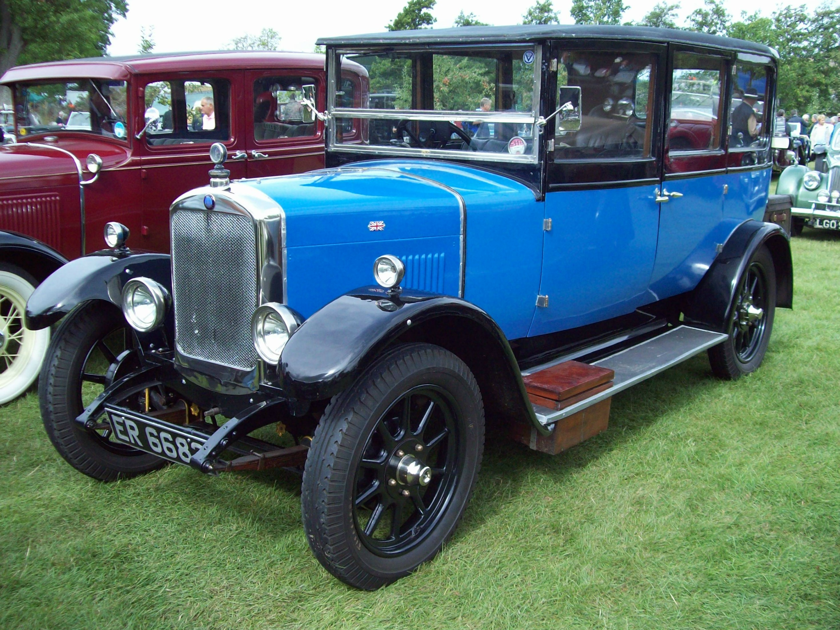 1926 Hillman 14 6-light coachbuilt saloon (DVLA) first registered 13 November 1926 7:08:2011 at Prescot VSCC Hillclimb, Gothrington